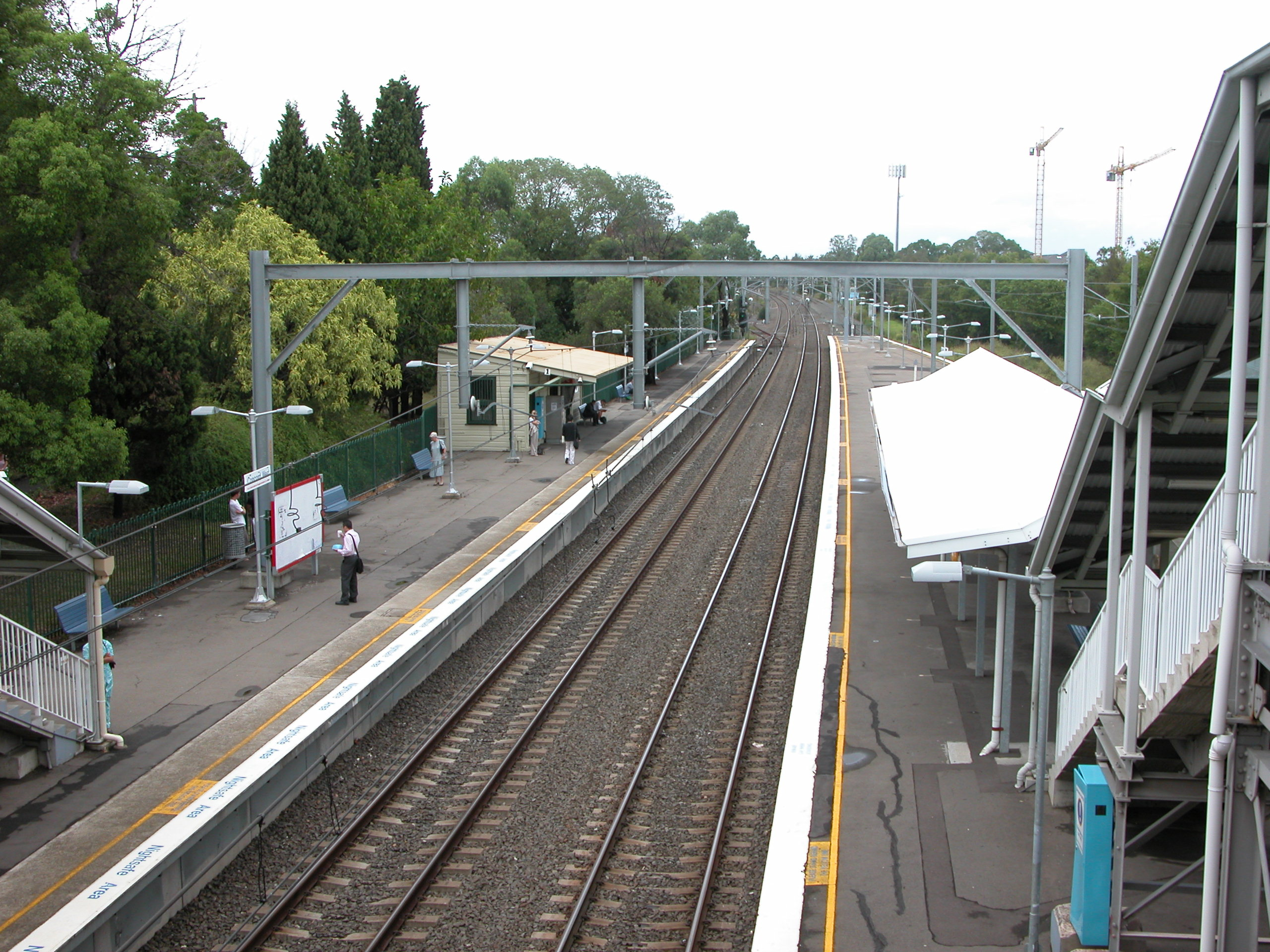 Concord West railway station (Sydney, Australia) looking south from the overhead bridge. Author: Stephen Frede.